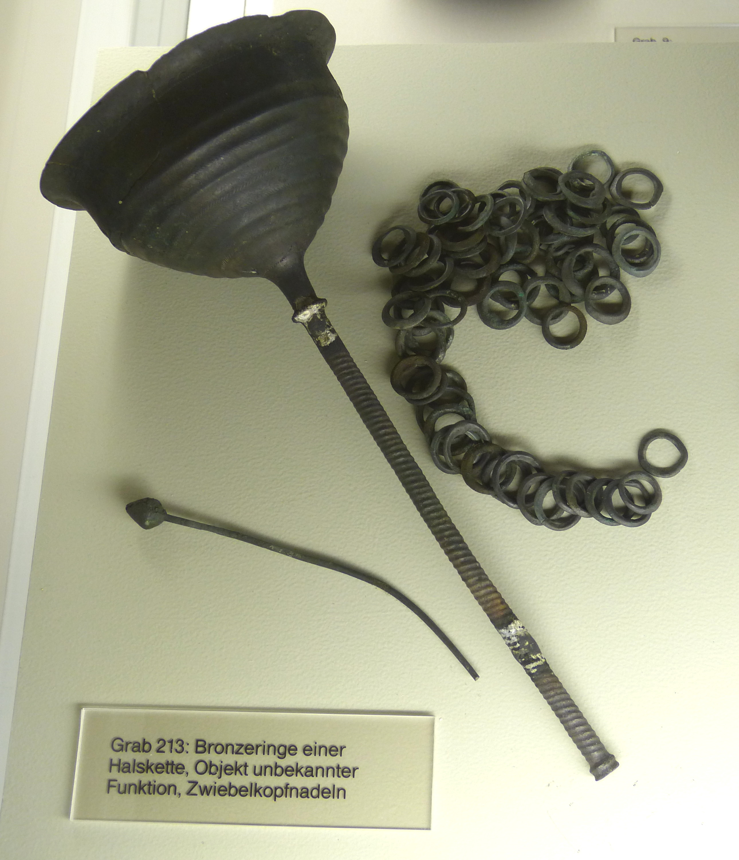 Kelheim ( Lower Bavaria ). Archaeological Museum: Artefacts from grave 213 of the Urnfield culture cemetery at Rennweg ( Kehlheim ).